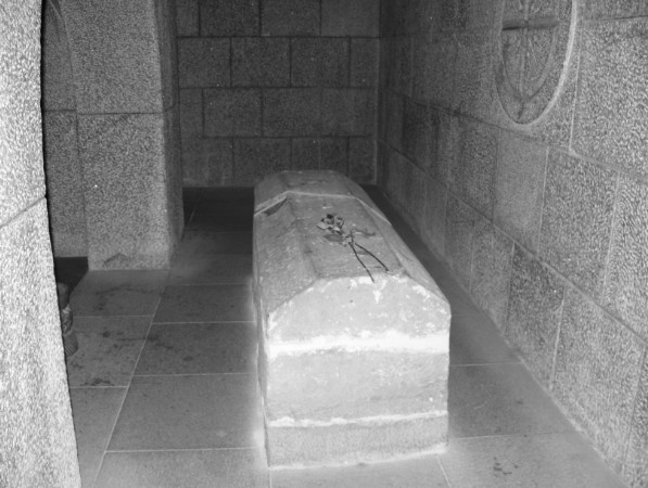 Brunonen in Braunschweiger Dom